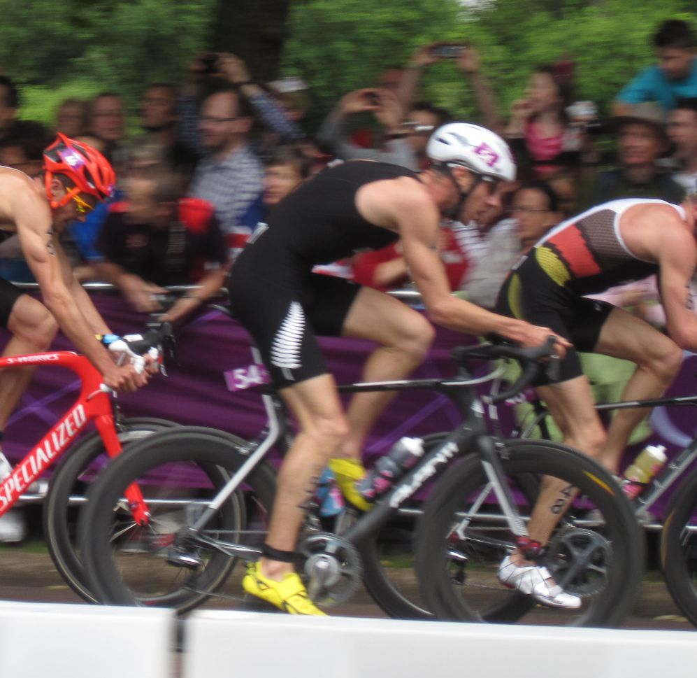 Crop of Bevan Docherty (New Zealand), Men's triathlon in Hyde Park, 2012 Summer Olympics